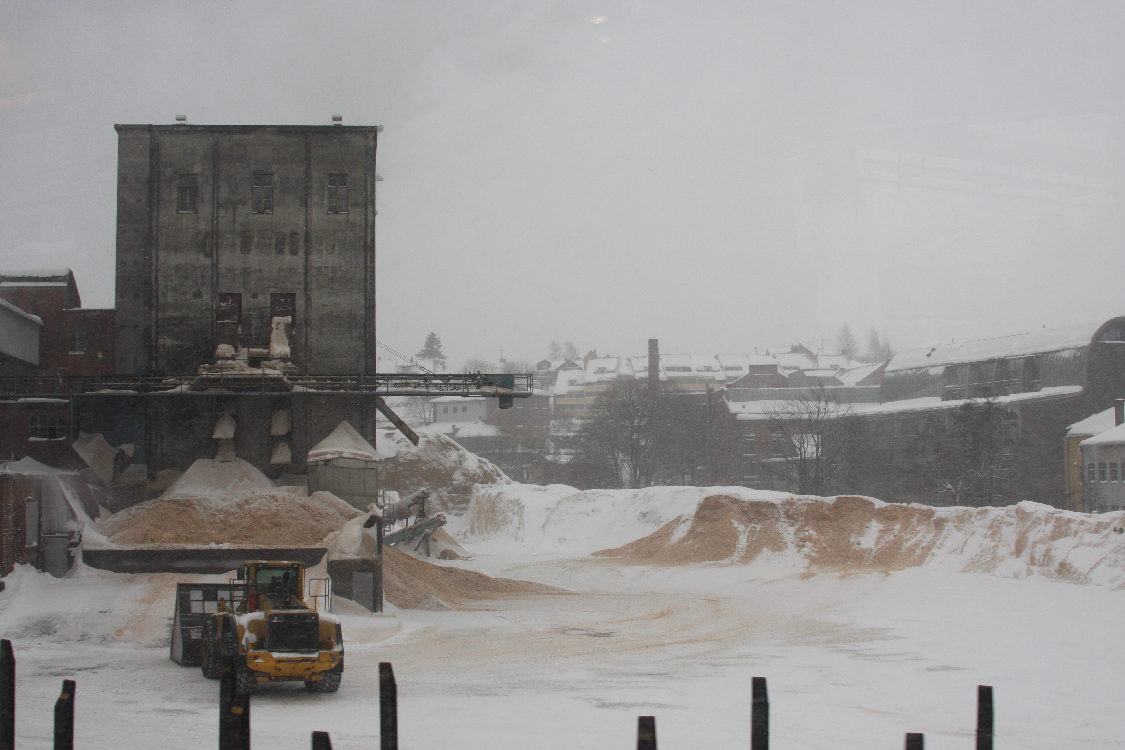 M peterson & Sons, kraft paper mill in the city of Moss, Norway.